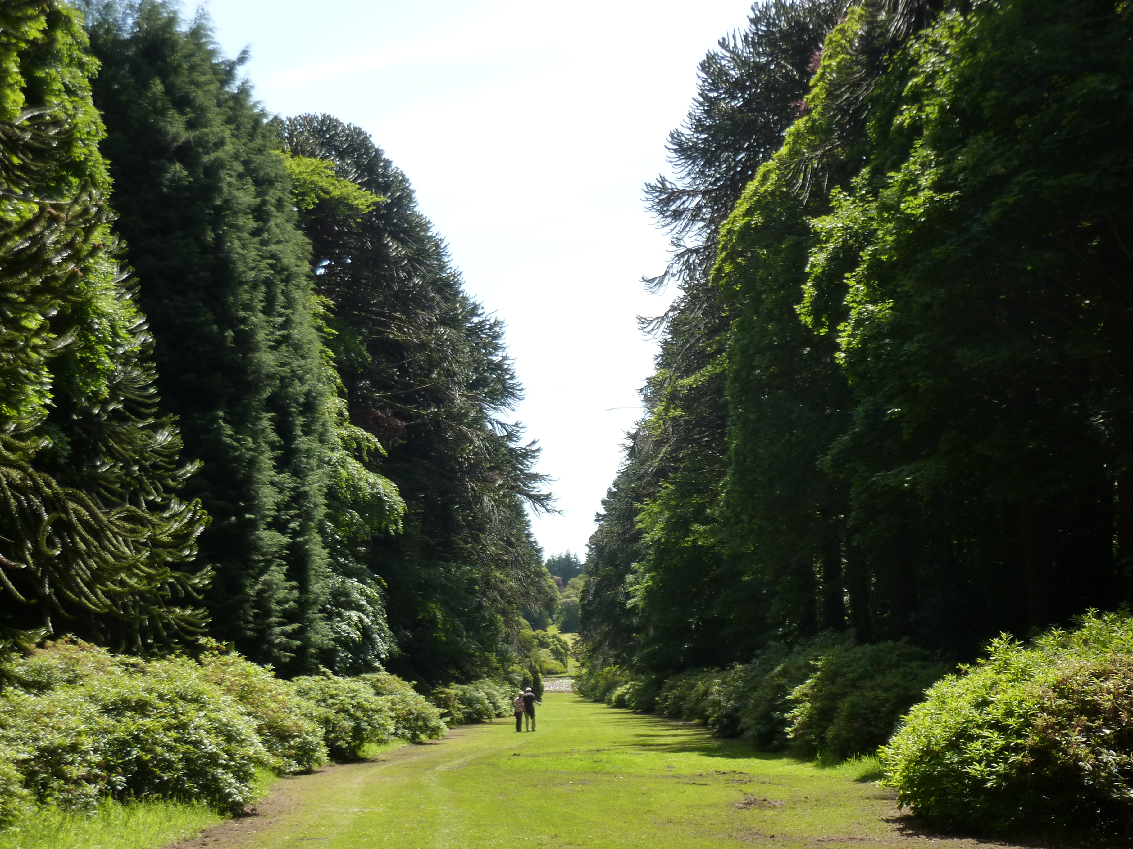 In Castle Kennedy gardens Day 2 on the Southern Upland Way blogged about at .uk/southernuplandway/day2